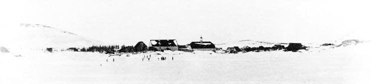 Photograph, "Hopedale," Moravian mission, Labrador, NL, 1881-85, Silver salts on paper mounted on card - Albumen process - 10.6 x 24.4 cm